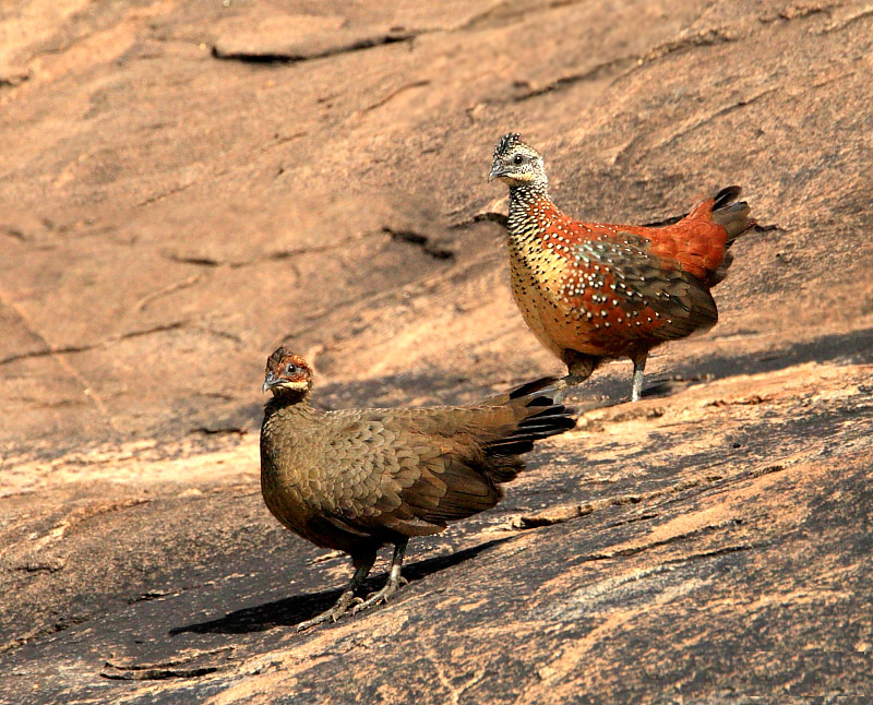 Painted Spurfowls at Daroji, India